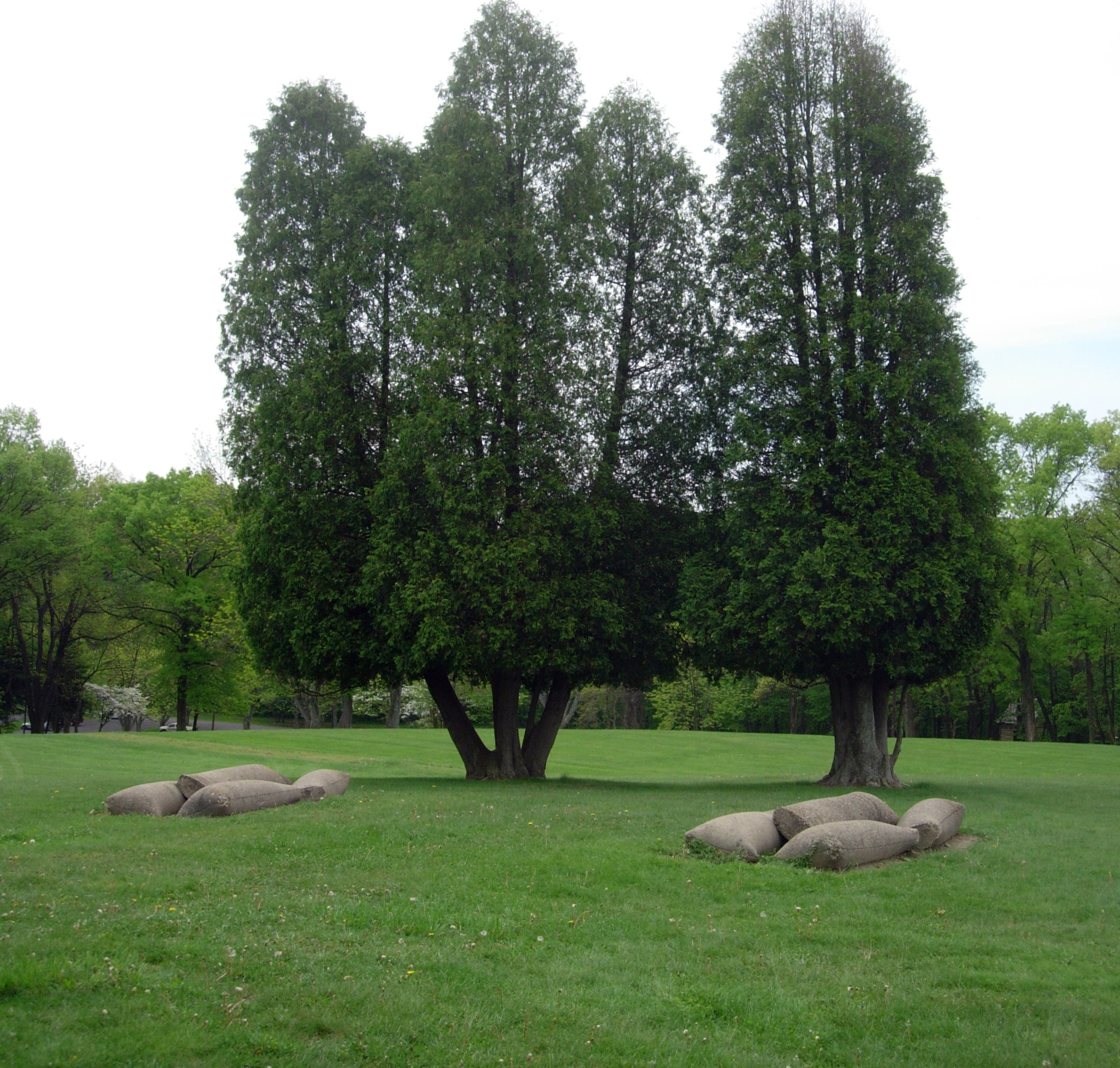 Edge Hill on the Bushy Run Battlefield near Harrison City, Pennsylvania.